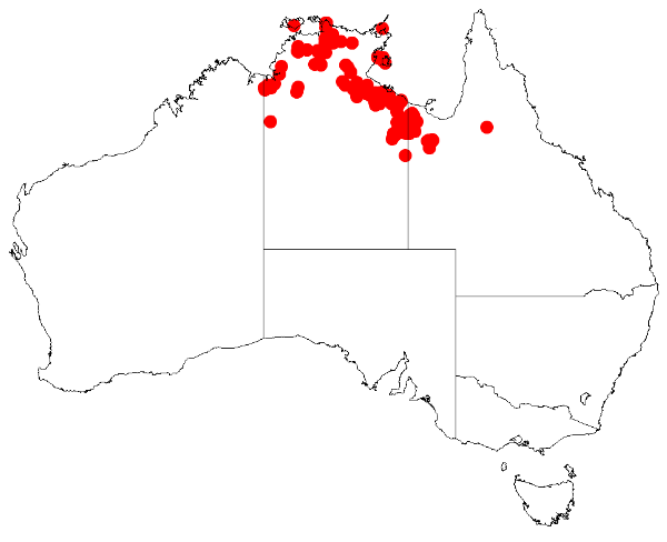 Acacia abbreviata Occurrence data from Australasia Virtual Herbarium downloaded from on 8 December 2018